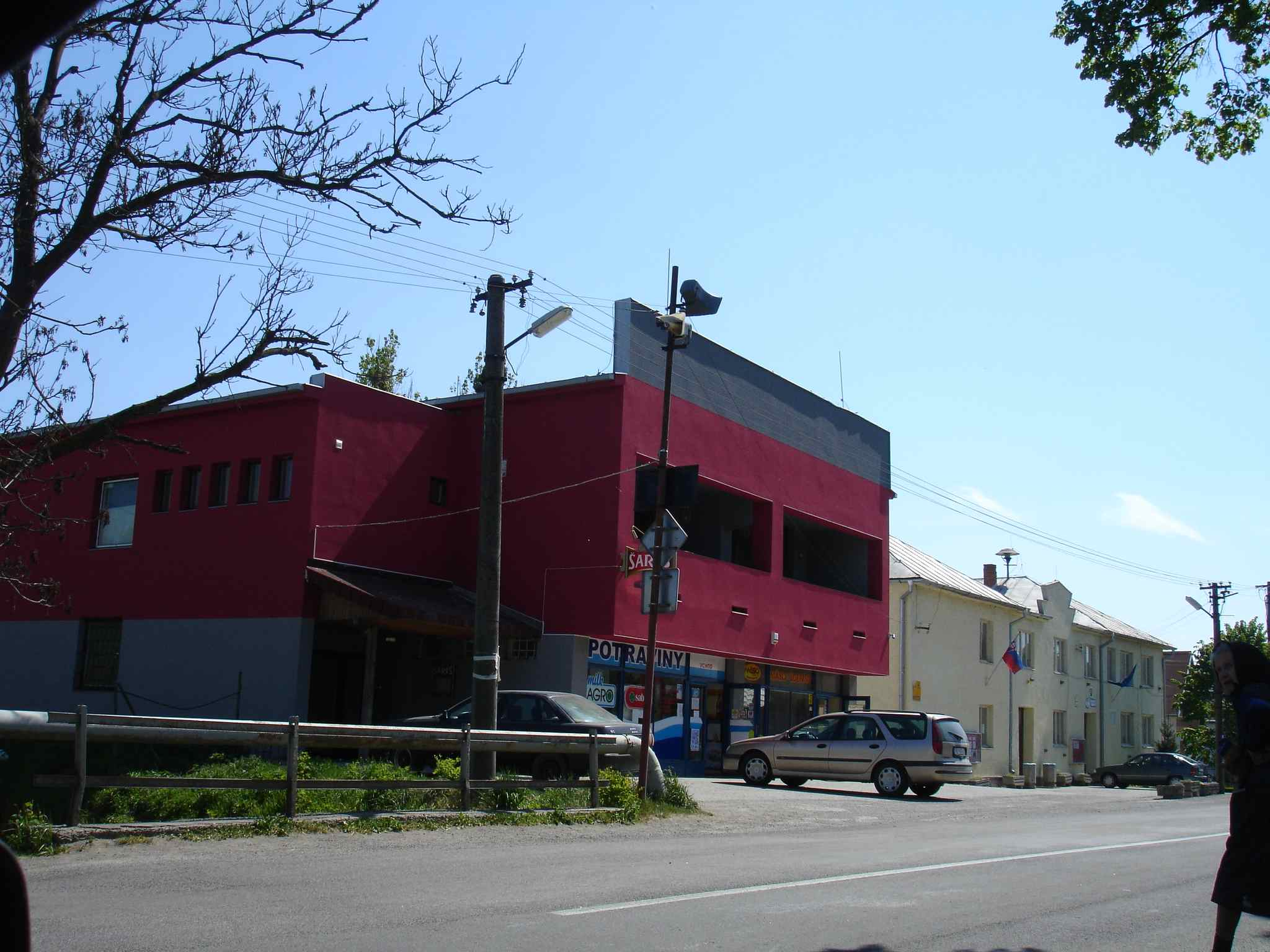 Topolovka, market and communal office